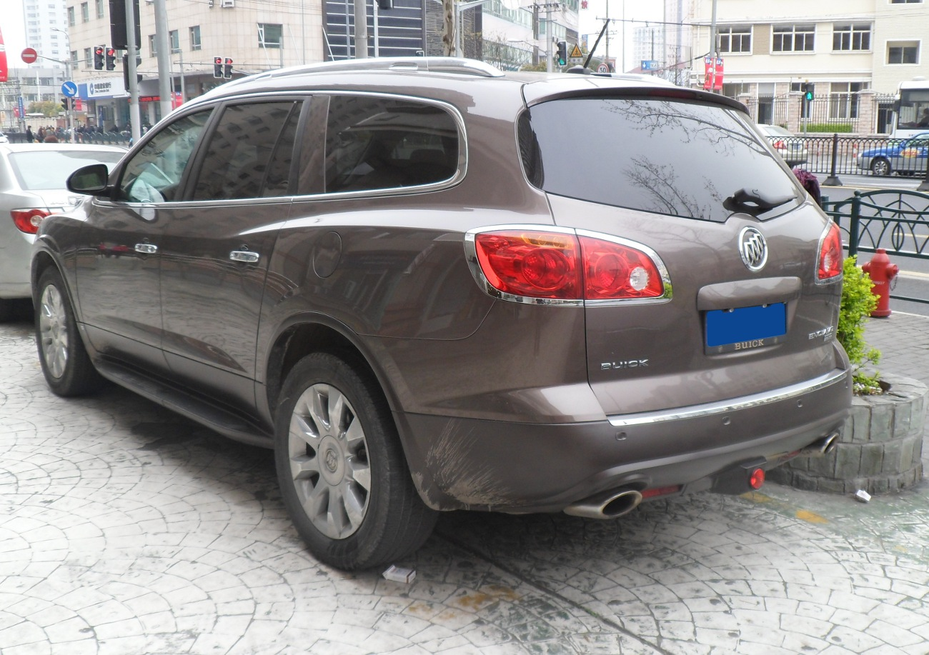 Buick Enclave photographed in Shanghai, China.